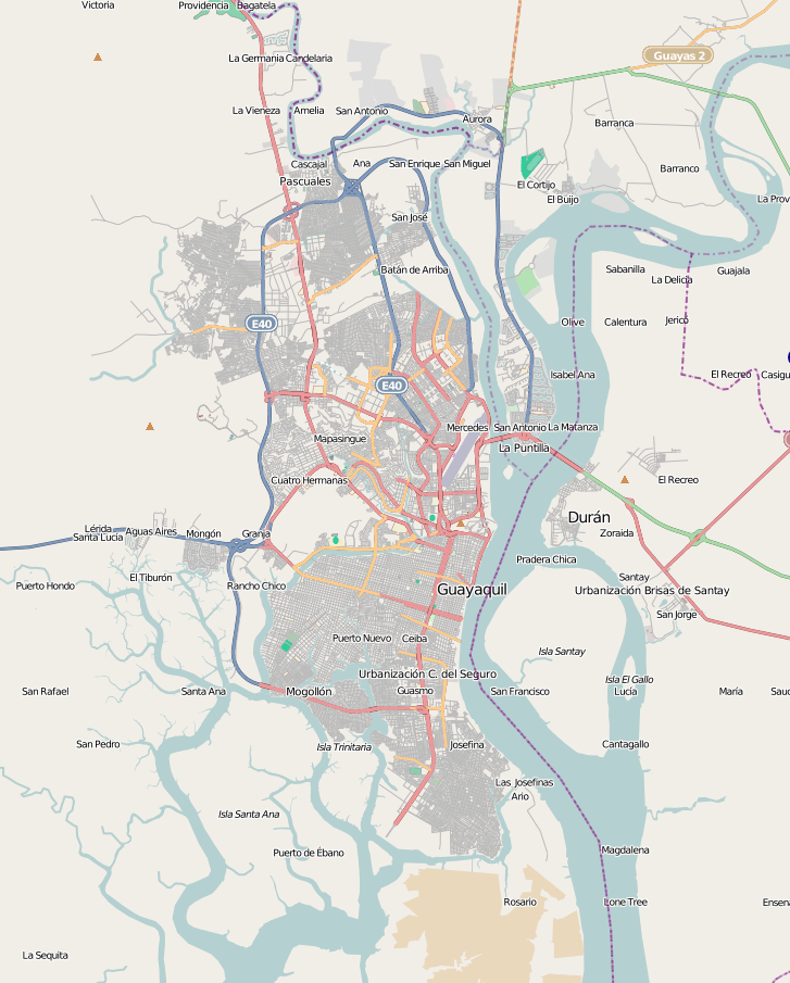 This map may be incomplete, and may contain errors. Don't rely solely on it for navigation.